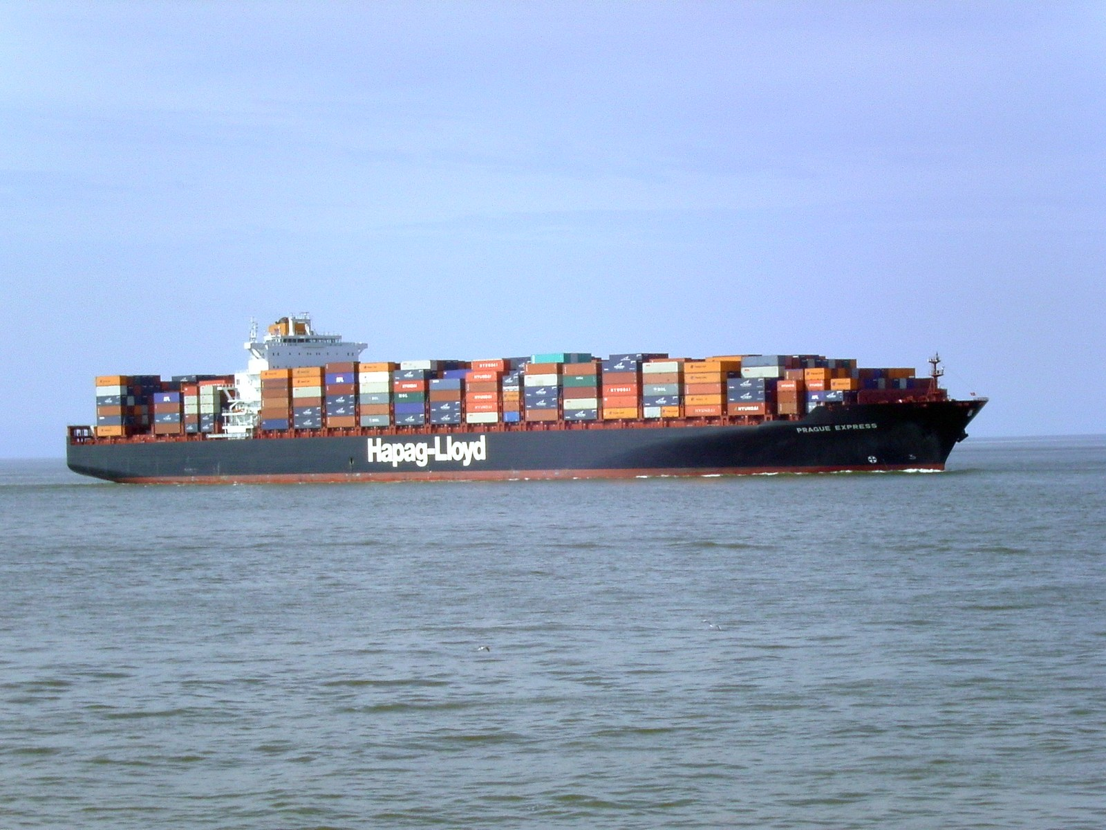 The container ship Prague Express on the River Elbe near Cuxhaven